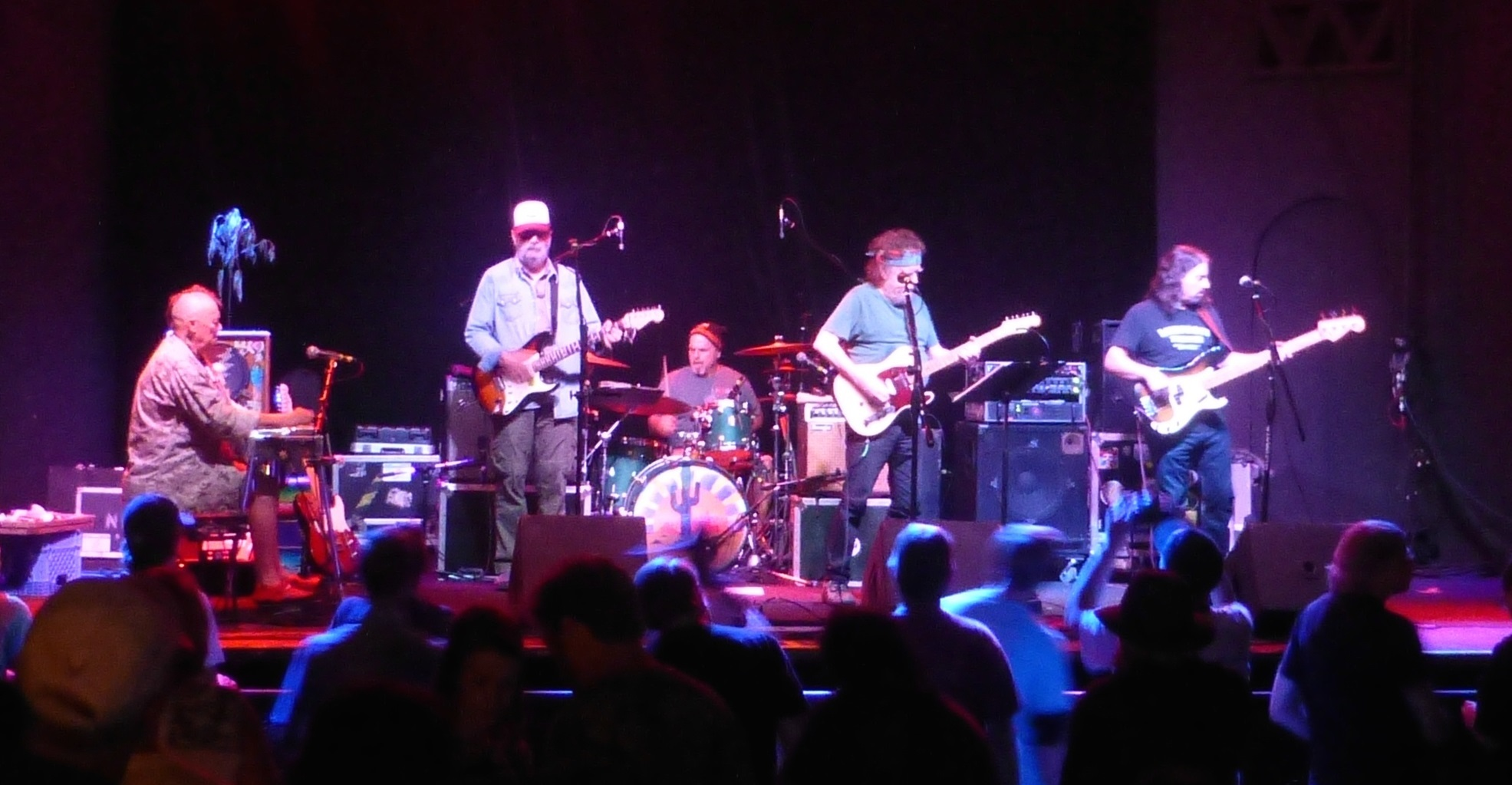 The New Riders of the Purple Sage, performing at the Westcott Theater in Syracuse, New York on August 5, 2015